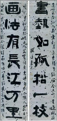 This original calligraphic style is called “Chusache” which was named after the creator, Chusa Kim Jeonghee